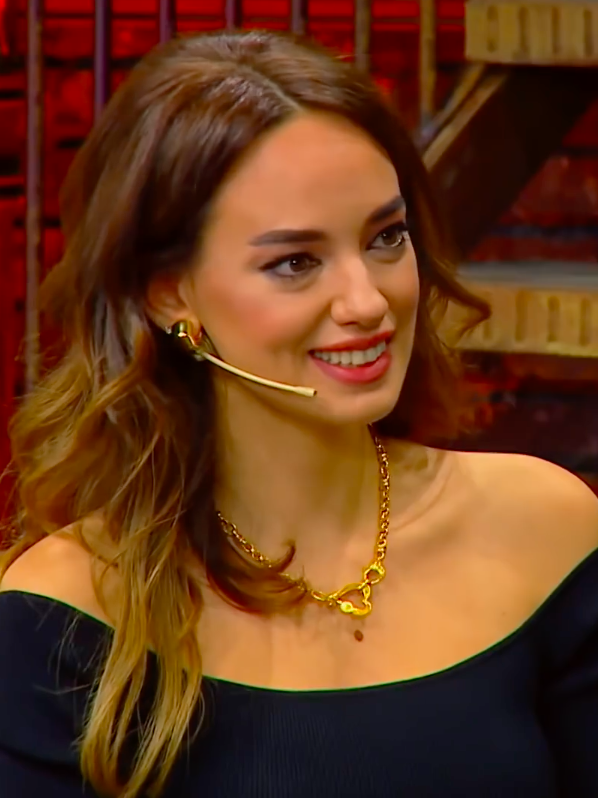 Turkish actress Seda Bakan during the 11th episode of Tolgshow hosted by Tolga Çevik.